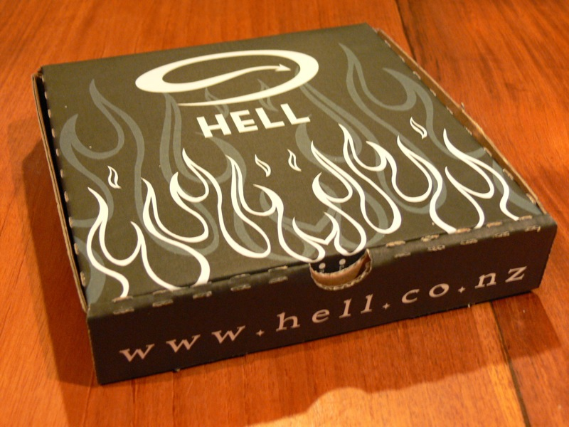 There's a pizza chain here in NZ called Hell Pizza. Their web site is a hoot, you should check it out.